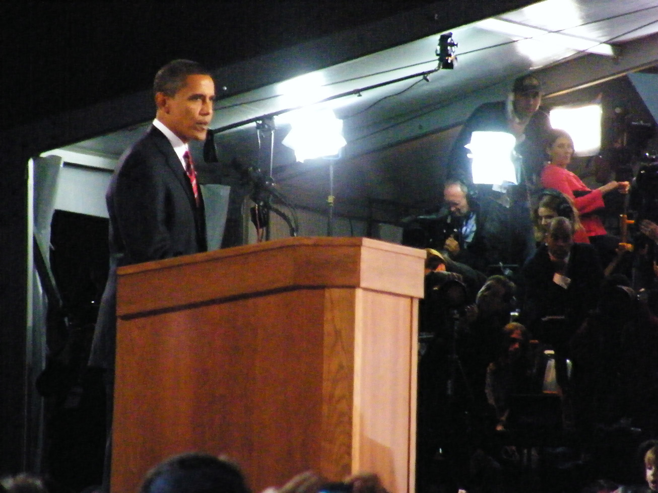 Free for personal and commercial use. Please credit a Free for personal and commercial use. Please credit as shown: (C) Wendy Piersall, Free for personal and commercial use. Please credit as shown: (C) Wendy Piersall, Free for personal and commercial use. Please credit as shown: (C) Wendy Piersall